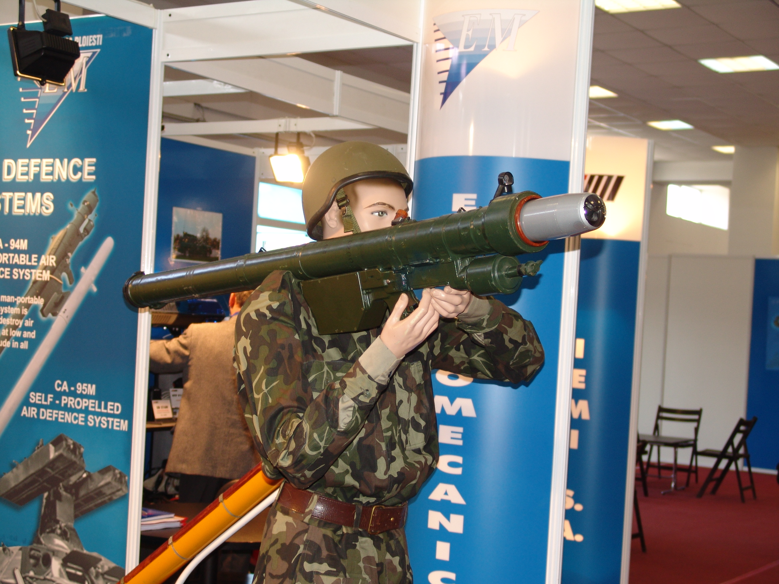 CA-94M (improved, licensed-built SA-7) on display at Expomil '05.